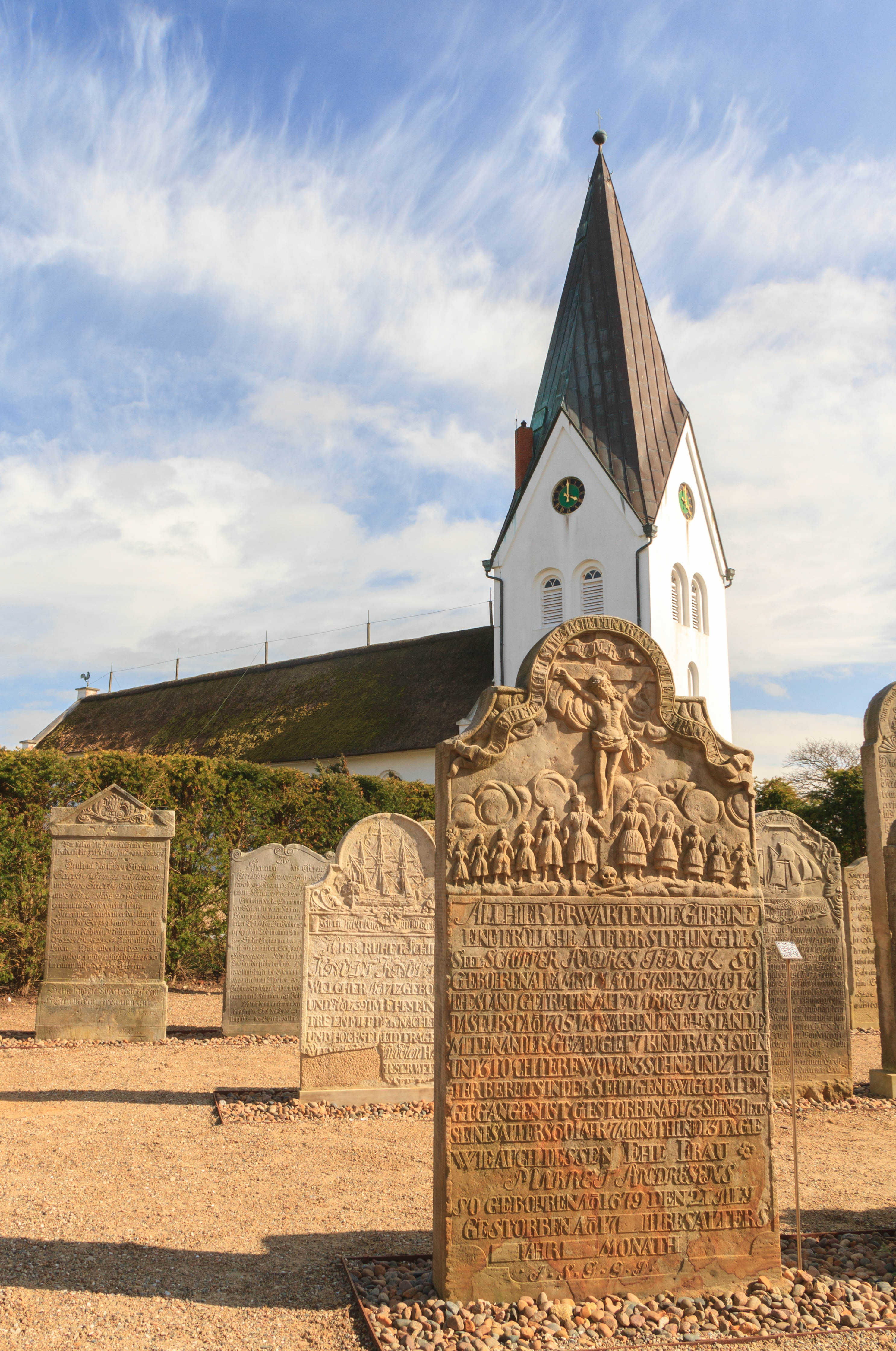 The making of this document was supported by the Community-Budget of Wikimedia Germany. Die Kirche St. Clemens (Nebel)